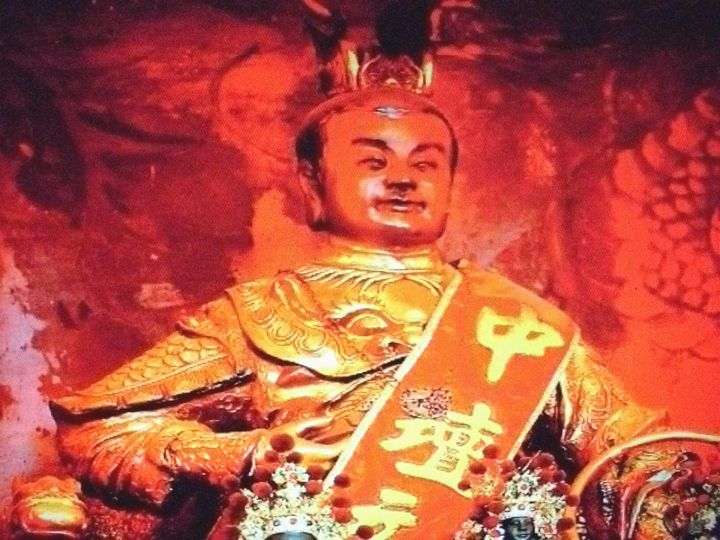 Position in Sanfeng Temple, Sanmin District, Kaohsiung.